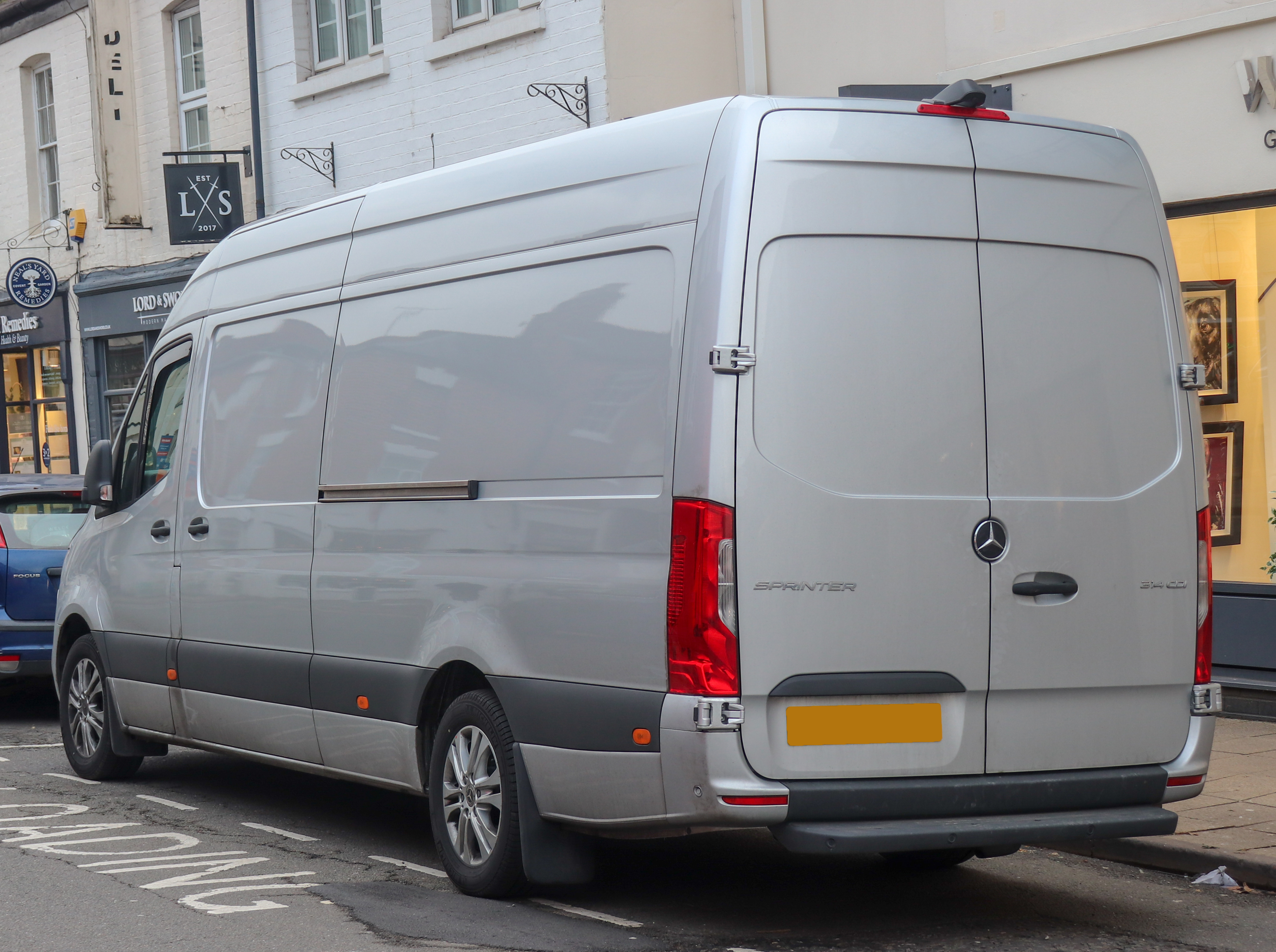 2018 Mercedes-Benz Sprinter 314 CDi 2.1 Rear Taken in Leamington Spa